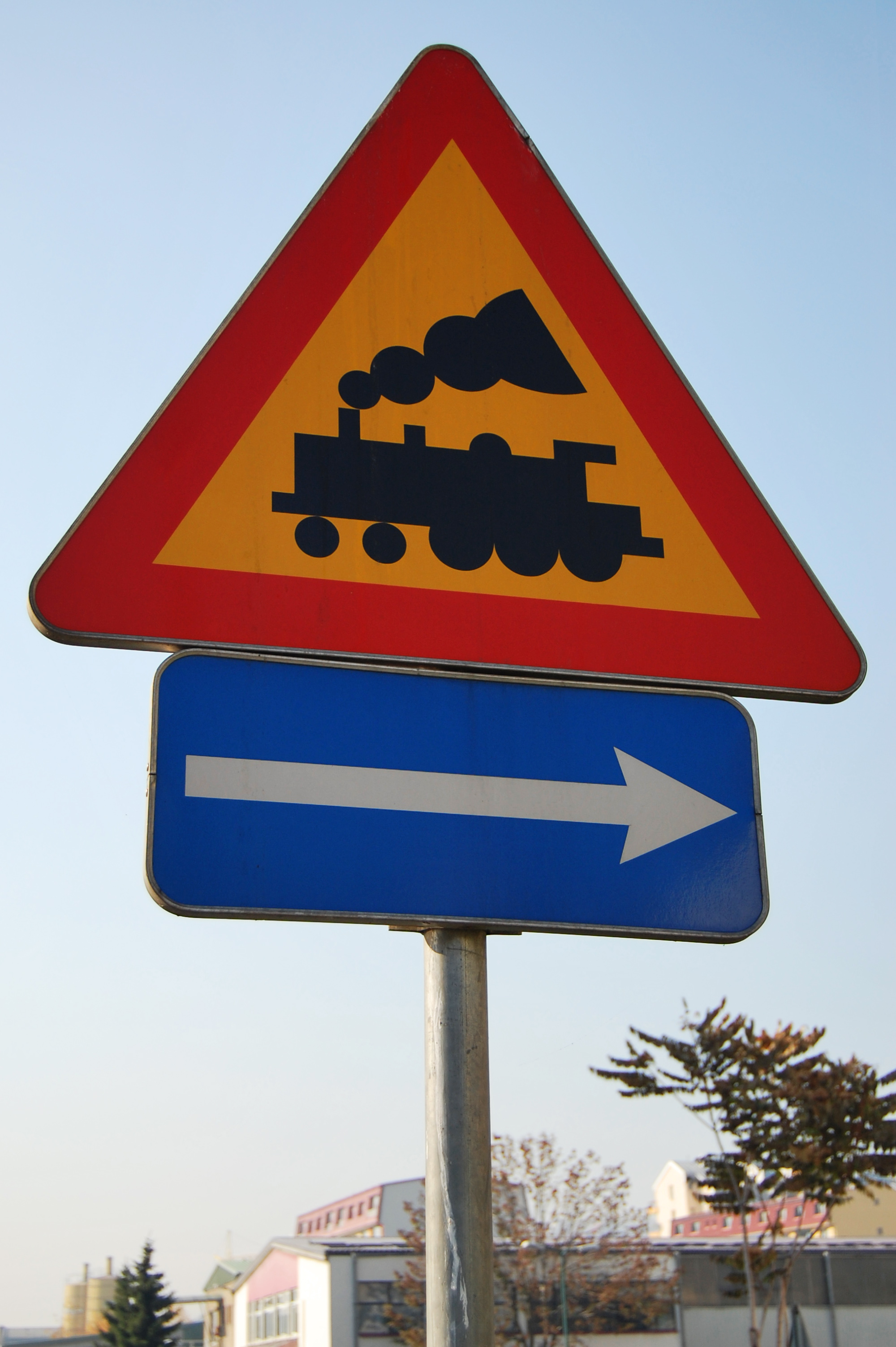 A traffic sign for the industrial track on Dr. Fetaha Bećirbegovića street